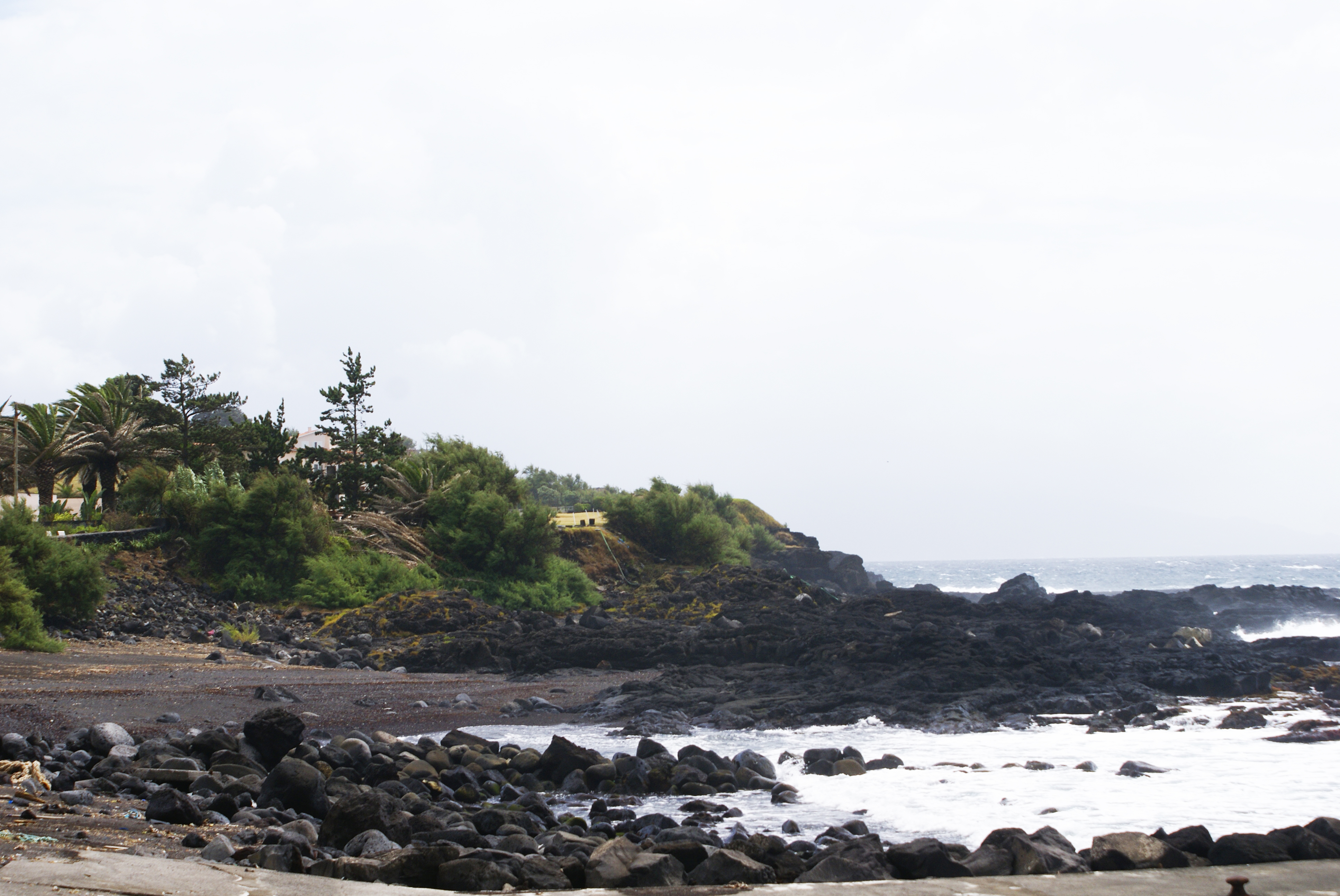 Praia da Feteira, concelho da Horta, ilha do Faial, Açores, Portugal